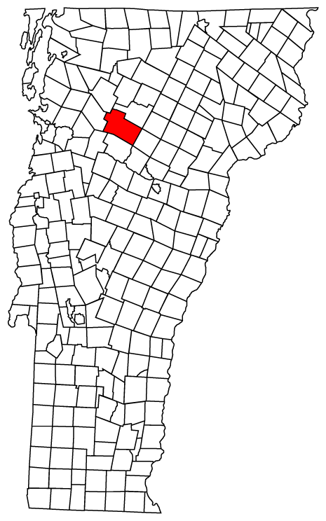 Map of Vermont towns with Stowe highlighted